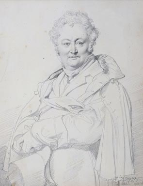 Graphite portrait of Guillaume Guillon Lethière (1760-1832) by Jean-Auguste-Dominique Ingres, 1815